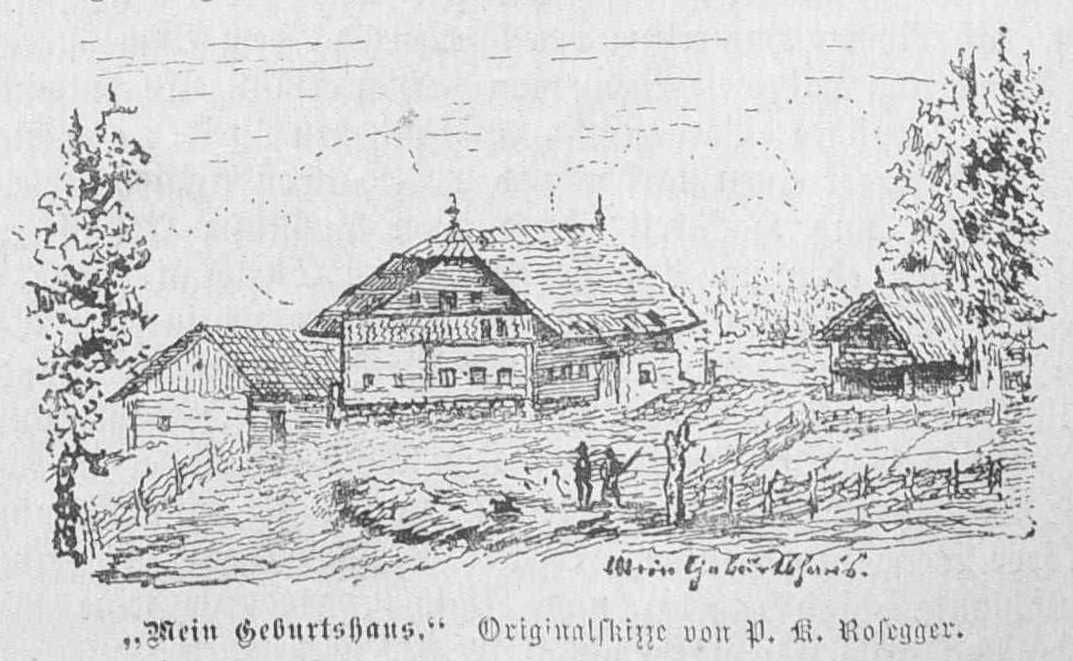 caption: "„Mein Geburtshaus.“ Originalskizze von P. K. Rosegger"